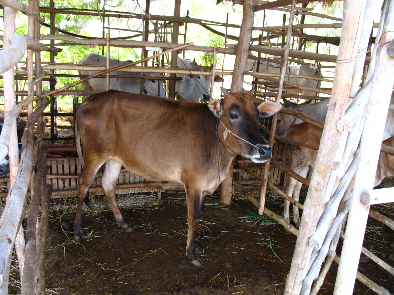 2006 - the treatment of dung of cows and other animals is an integrated part of the whole agricultural system of the UTA. The use of the produced fertilizer enhances the growth of animal wood. The nutrient cycle is closed.